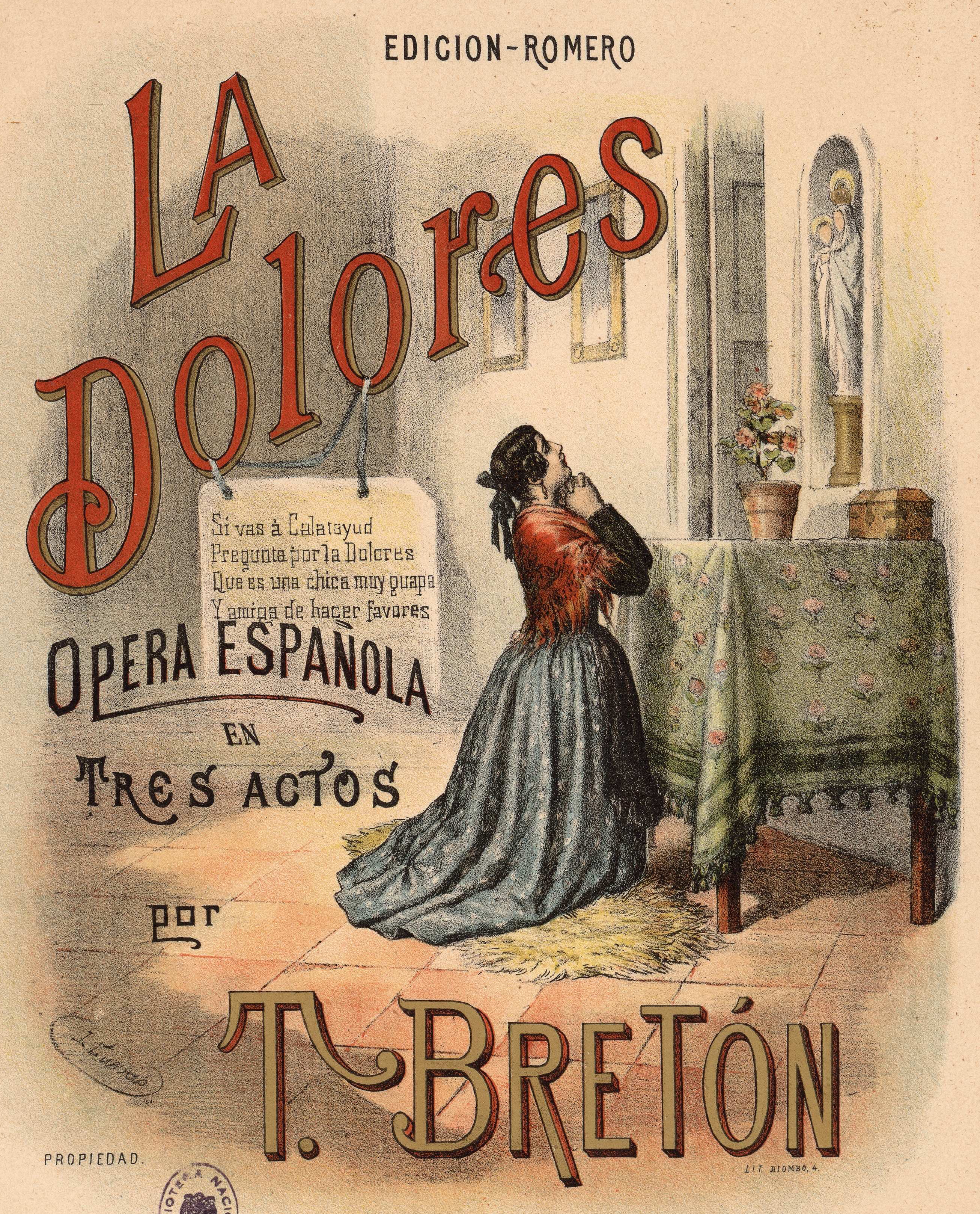 Cover page of the Romero edition depicting a scene from act 3, by José Cuevas (1844 — ca.1923)